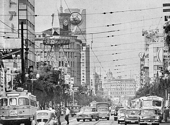 Ginza circa 1960